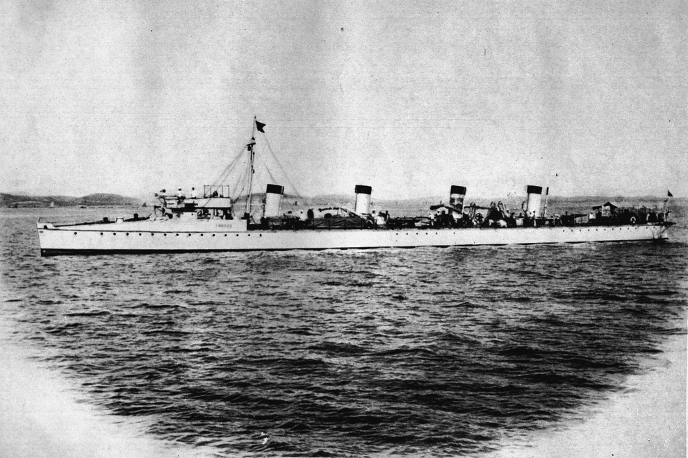 The Imperial Russian torpedo boat destroyer Boevoi.